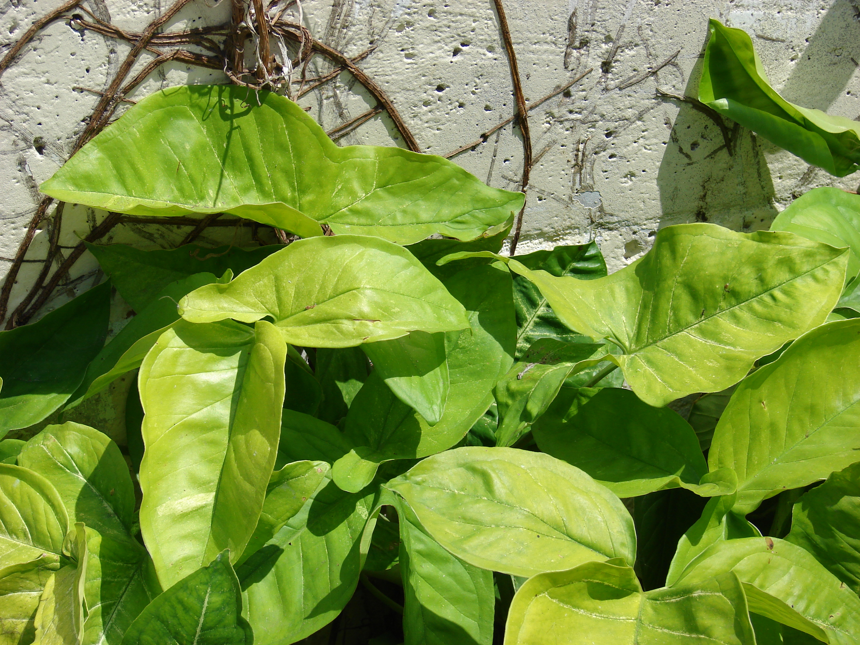 Syngonium podophyllum (habit). Location: Midway Atoll, Bravo barracks Sand Island